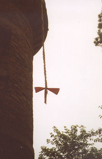 Rapunzel in the castle park of the German city of Ludwigsburg